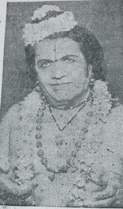 B.krishna